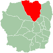 Location map of Ankazobe region in Antananarivo province.